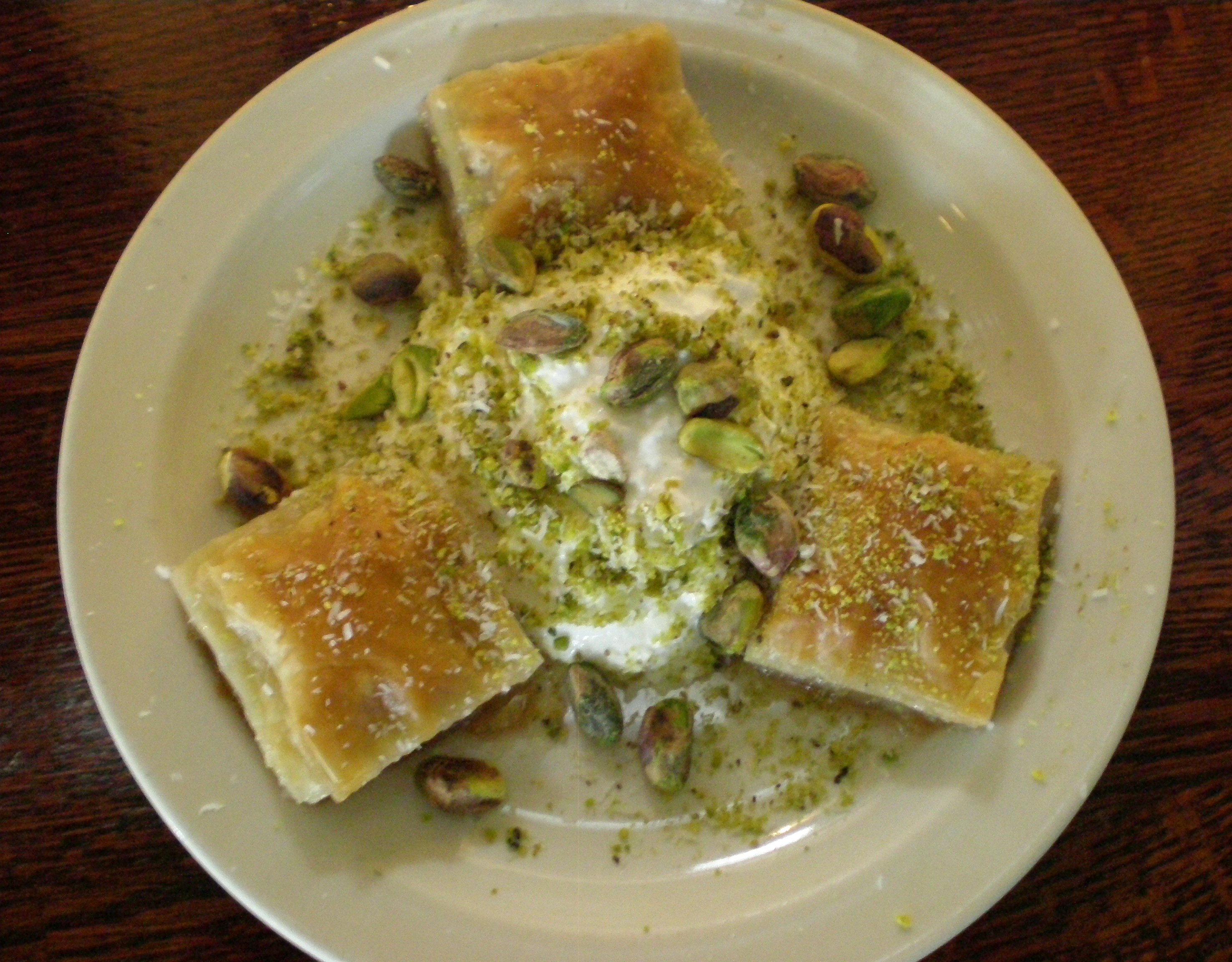 Turkish Baklava